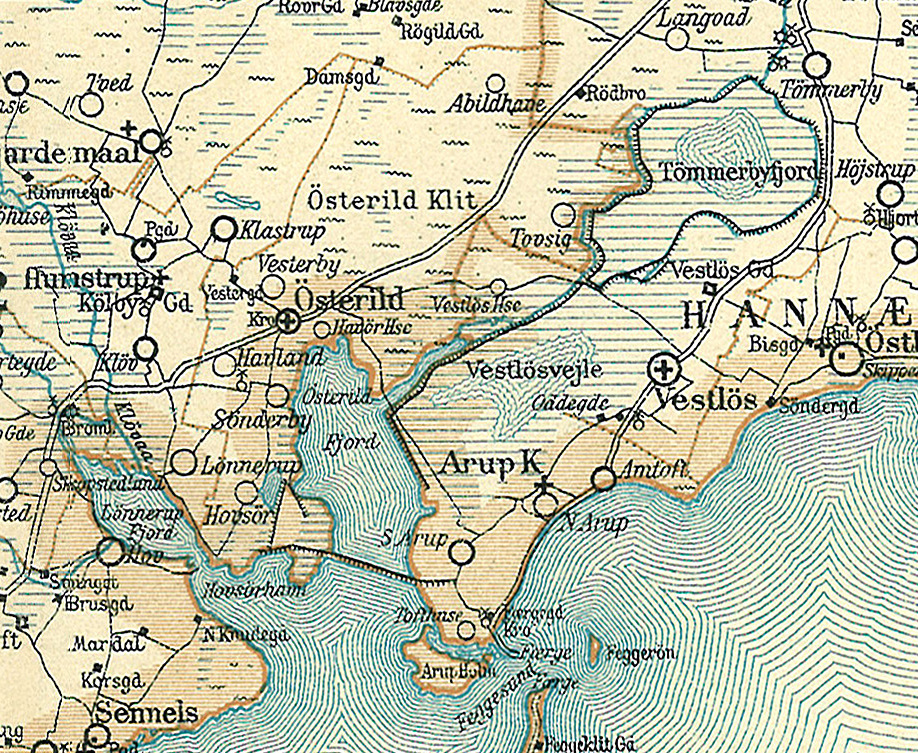 Map of Thisted County in Denmark